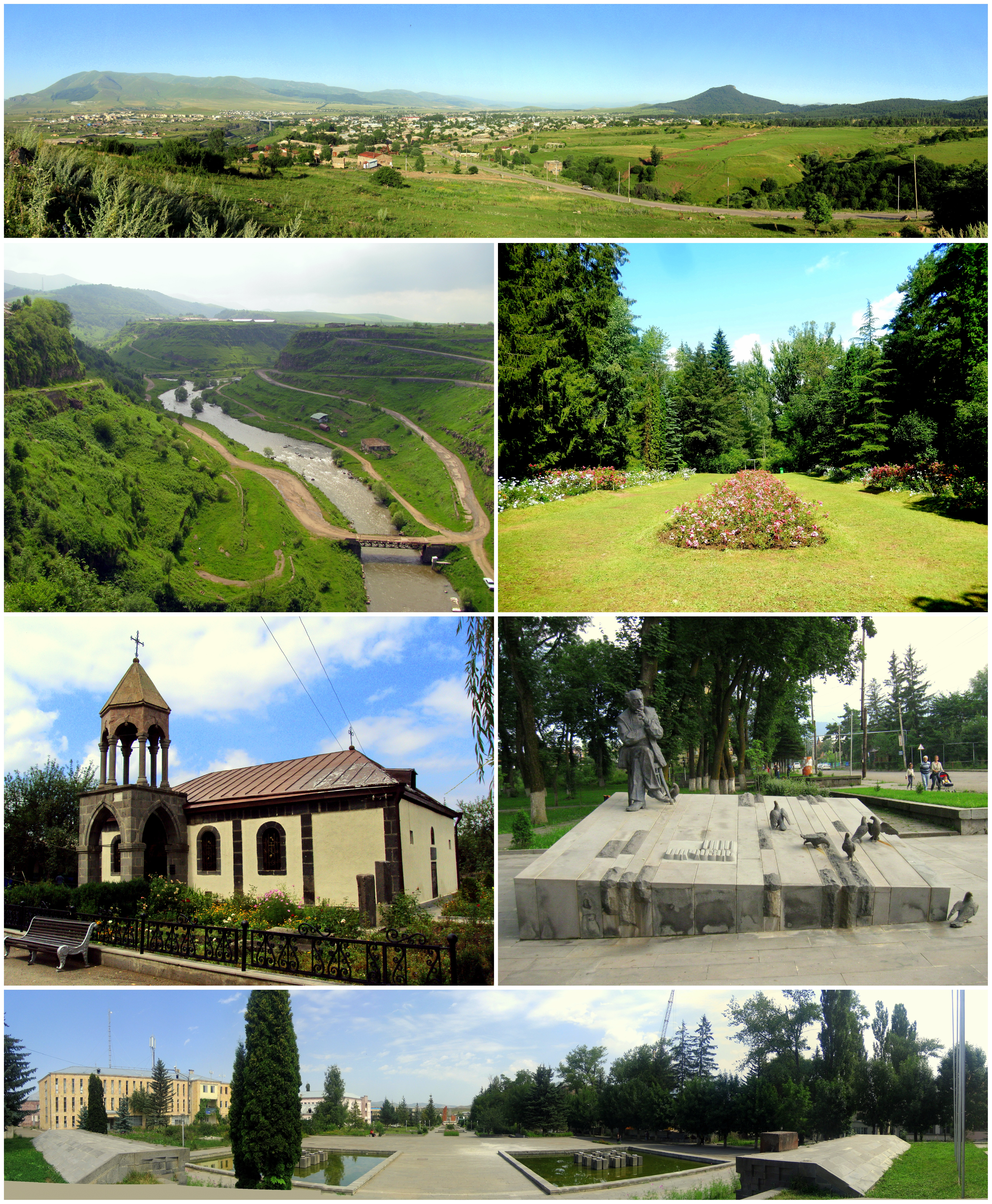 Stepanavan collection of images, Lori, Armenia.